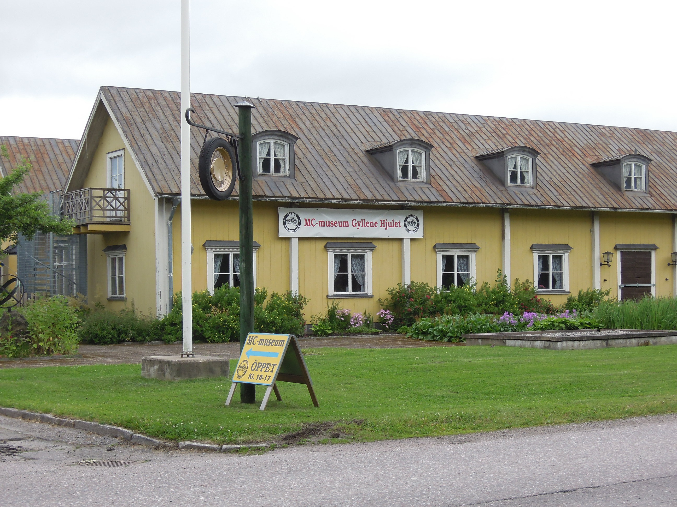 Gyllene hjulet (Golden wheel) motor cycle museum Surahammar, Sweden